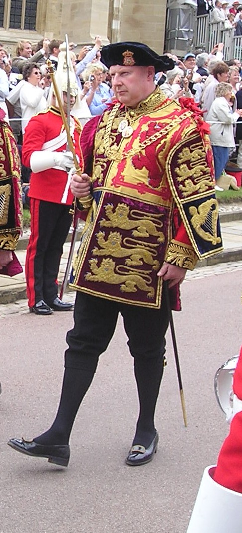 Thomas Woodcock, Norroy and Ulster King of Arms, in procession to St George's Chapel, Windsor Castle for the annual service of the Order of the Garter.